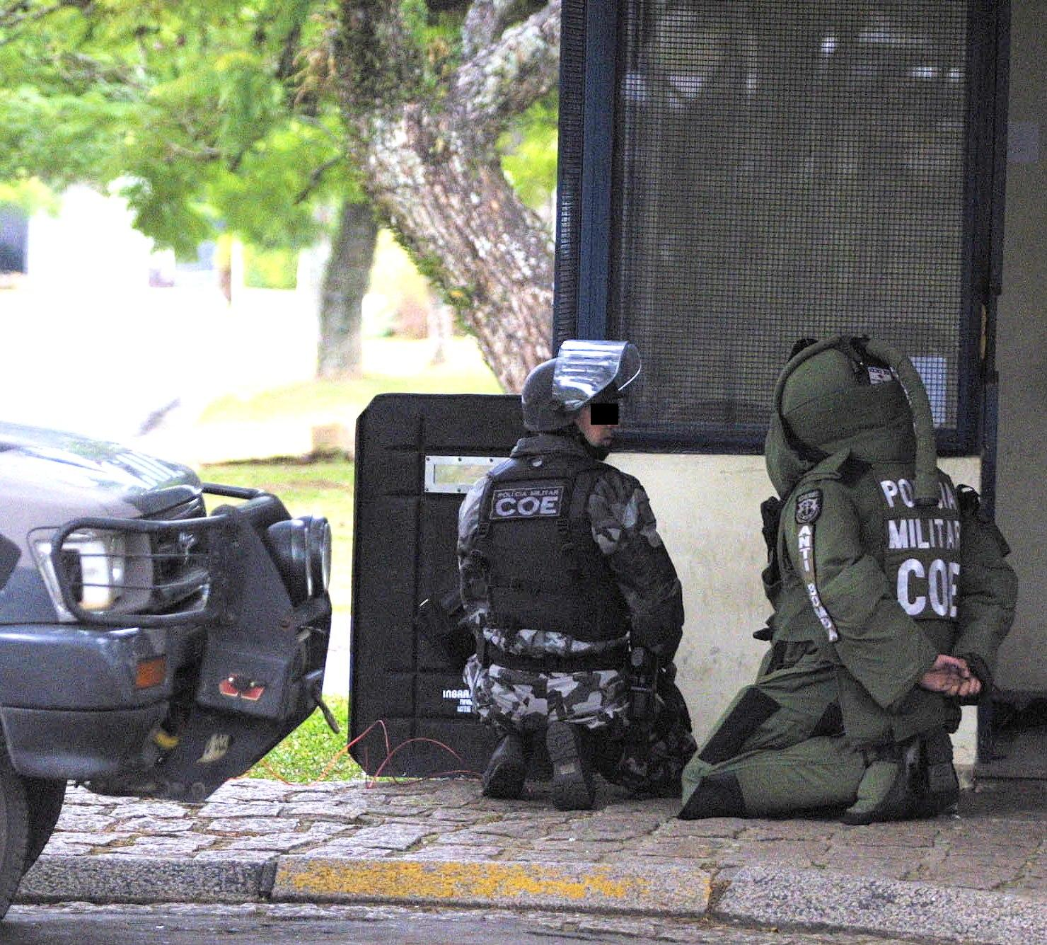 Military Police of Parana State - EOD/COE (SWAT), Brazil.